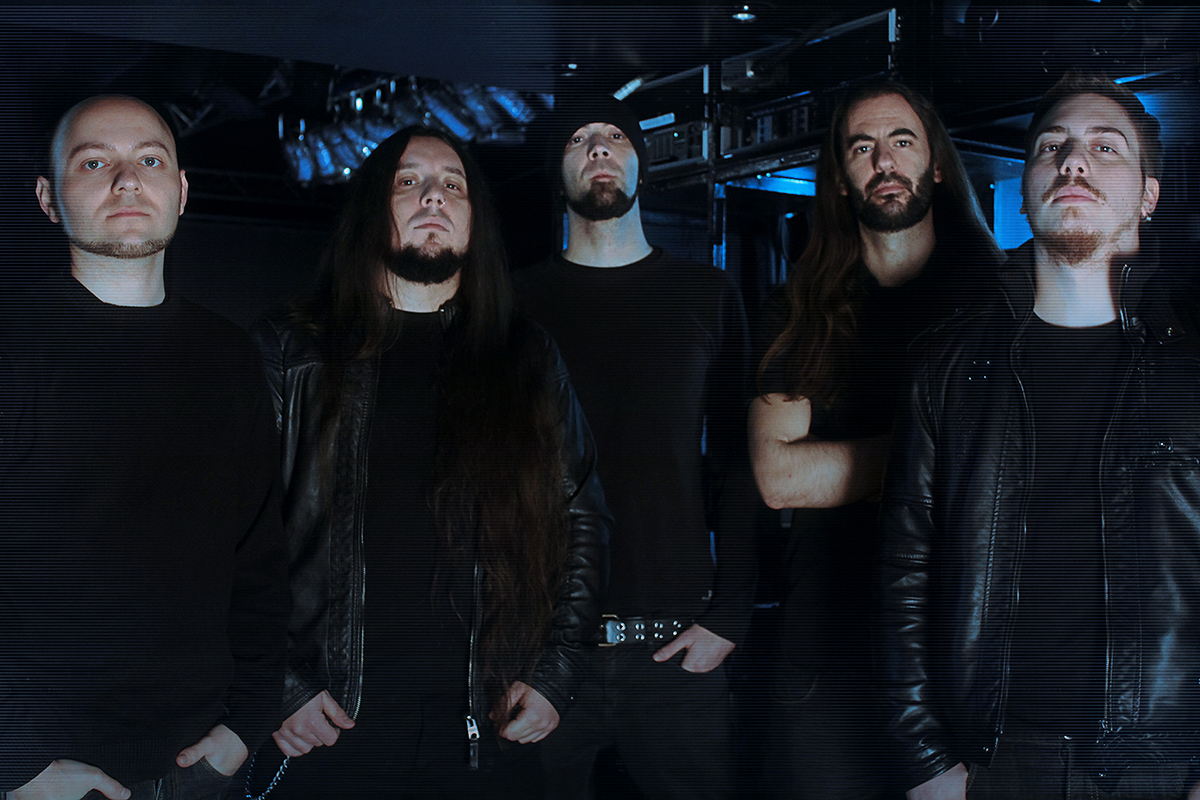 Wormed band picture 2014